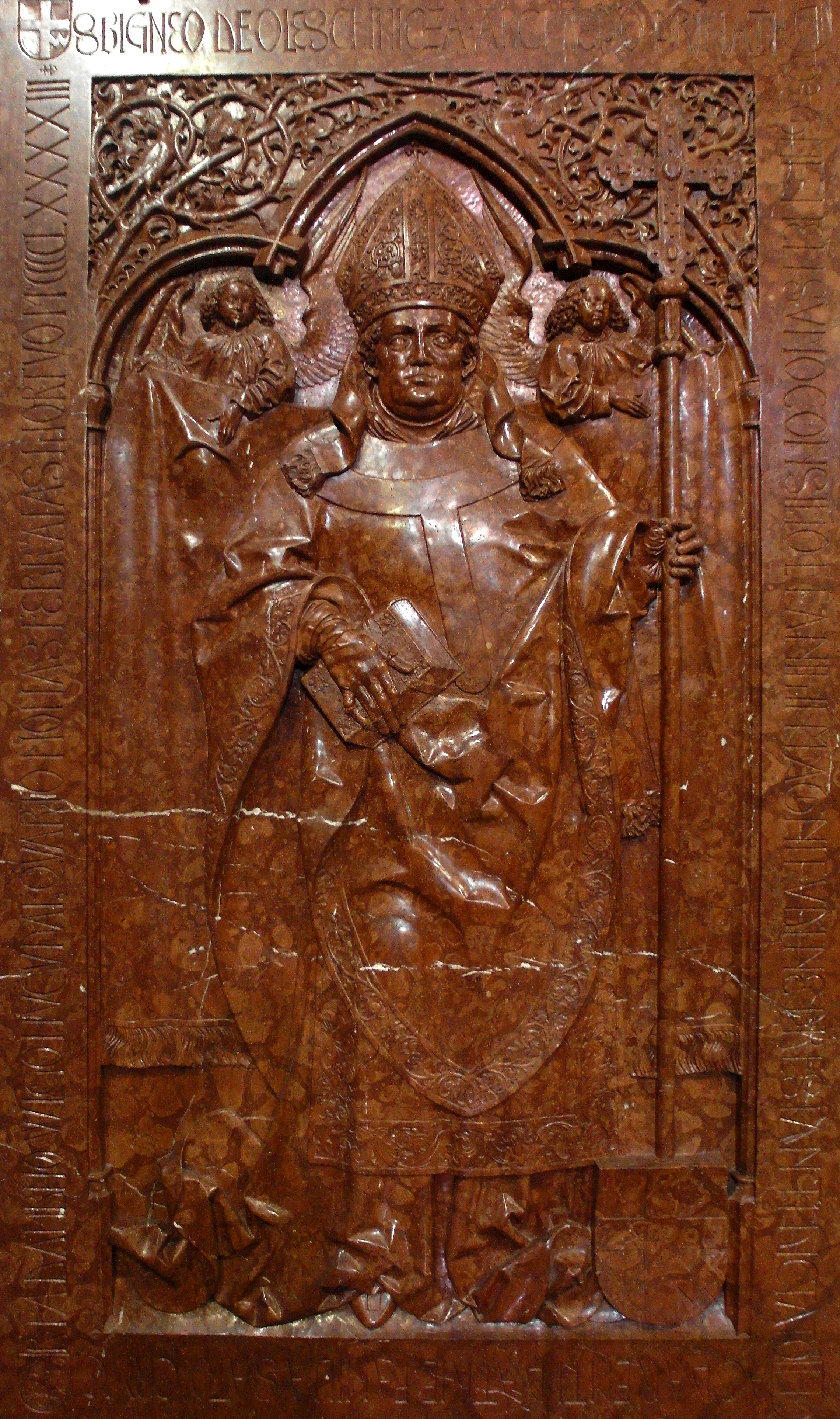 Acèh: Tombstone of the Archbishop of Gniezno Zbigniew Oleśnicki by Veit Stoß, 1495